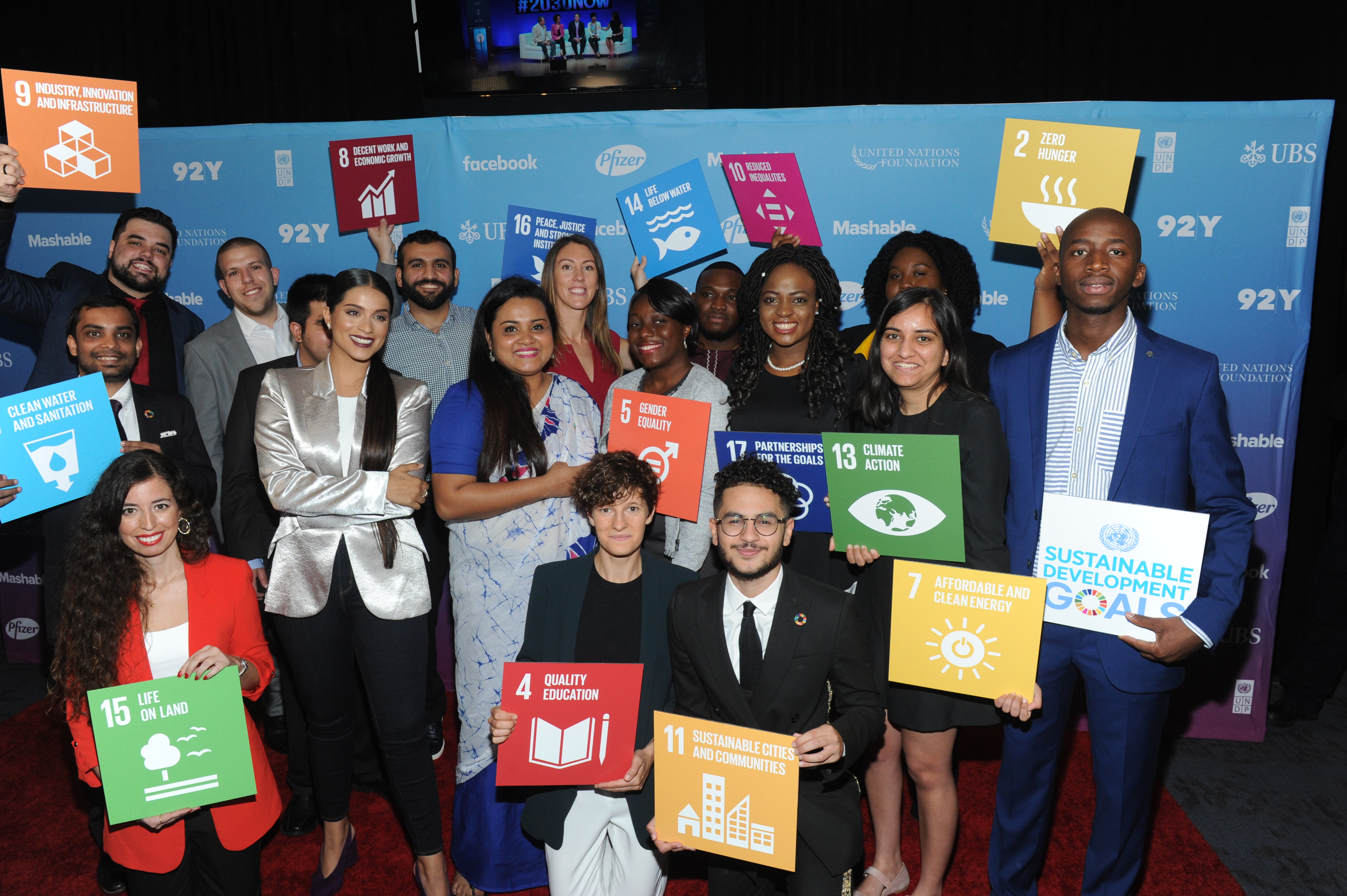 UN Youth Envoy Jayathma Wickramanayake, Lilly Singh, and young leaders hold SDGs at the Social Good Summit 2018